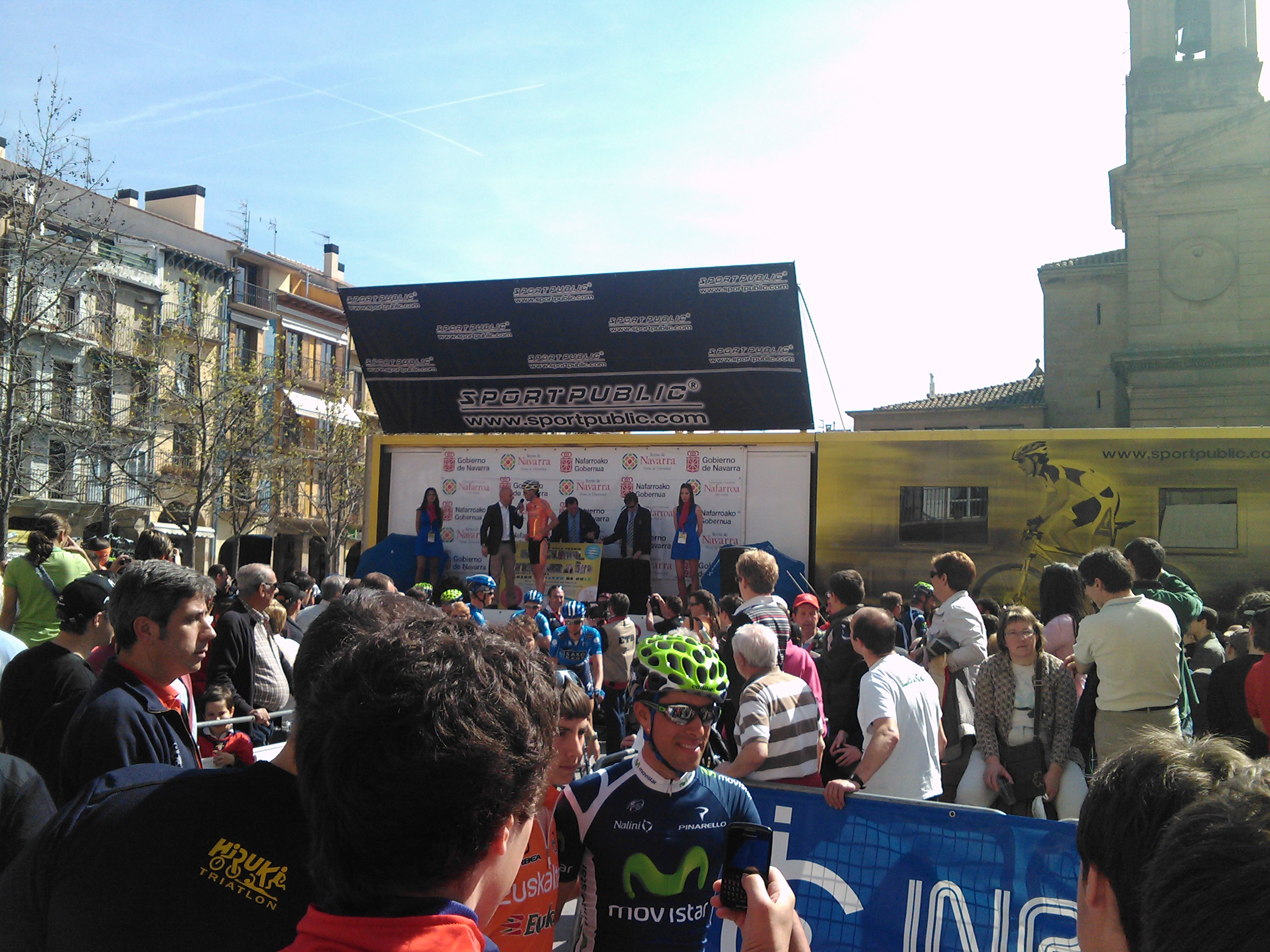 Presentation of Samuel Sánchez (Euskaltel-Euskadi), last winner (2011), in GP Miguel Indurain 2012 in Lizarra.